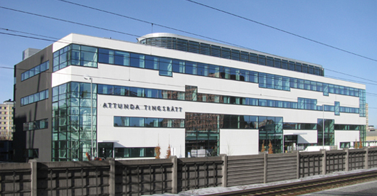 Attunda district court in Sollentuna, Sweden